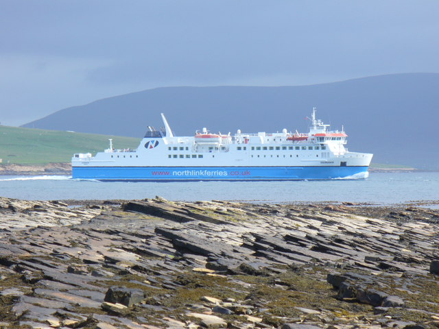 Foreshore Slabs by Noust of Nethertown Huge sloping old red sandstone slabs cover the shores around much of Orkney. Here they are on the northern shore of Hoy Sound. The car ferry is the MV Hamnavoe on its evening run from Stromness to Scrabster. Behind it are the islands of Graemsay and Hoy.